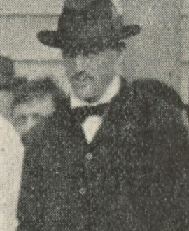 Photograph of Alf Catlin in 1899.